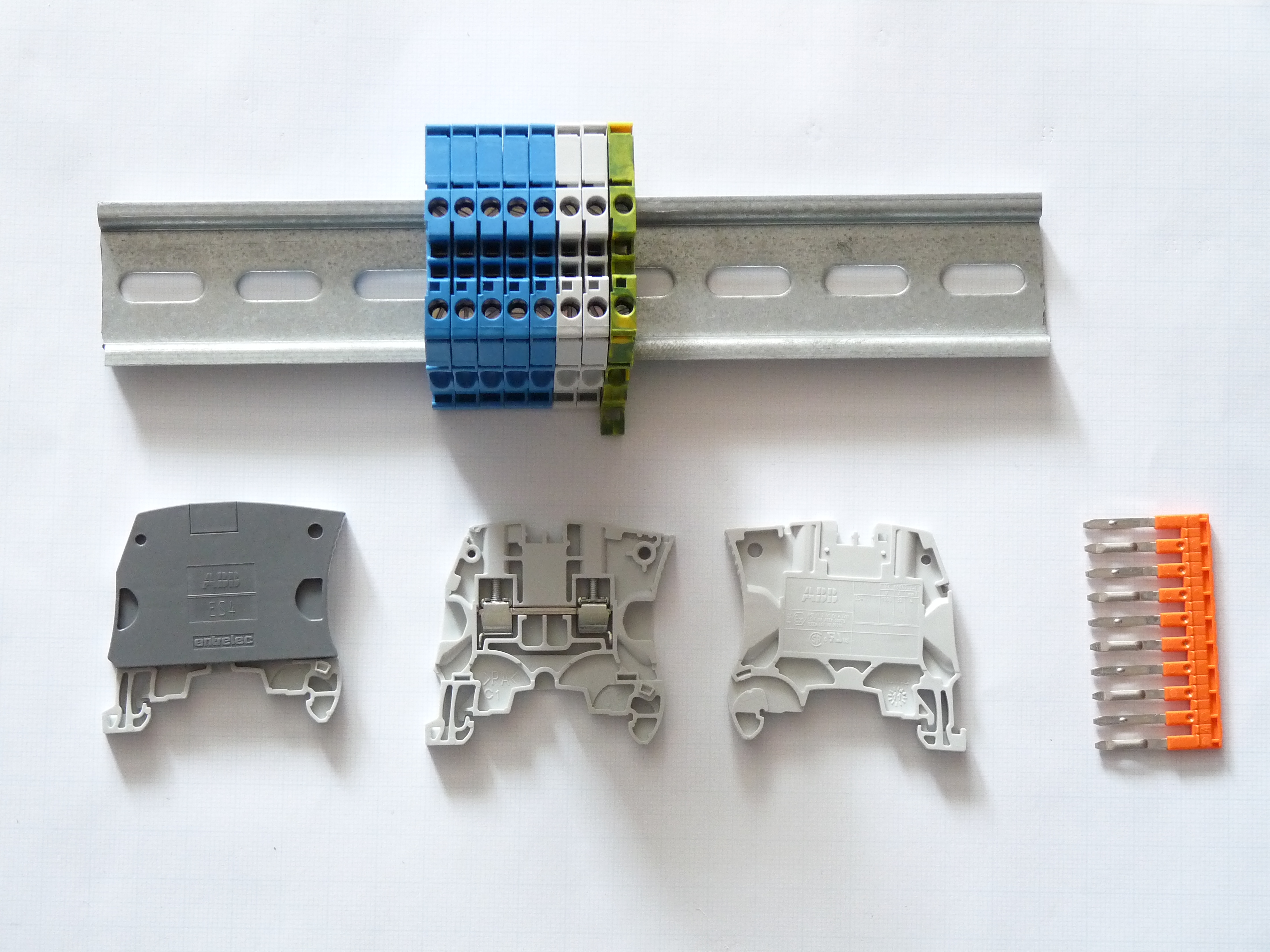 ABB terminals for DIN rail